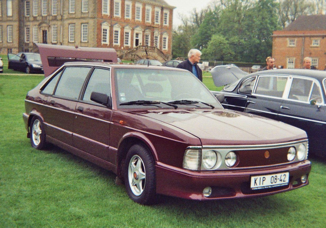 Tatra 613-4 Model 1995 at the Wartburg/Trabant/IFA Club UK Rally 2006 in Stanford Hall